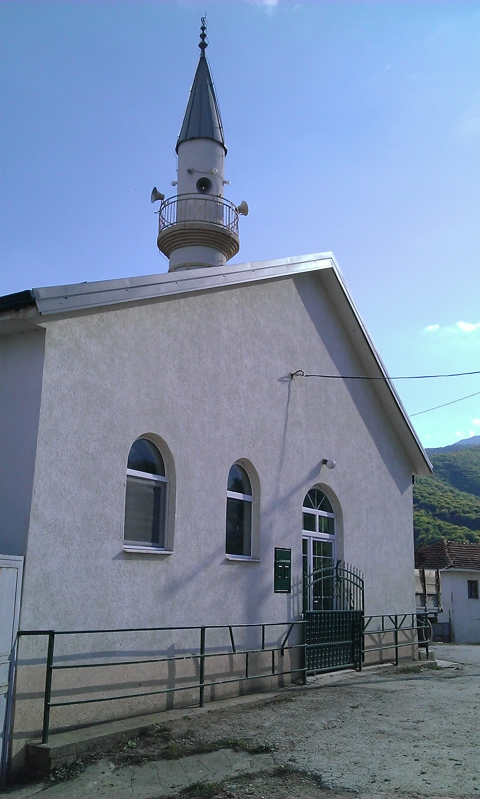 Mosque of Kišava villlage